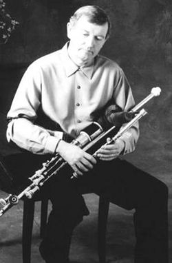 Liam O'Flinn playing the Irish Uilleann Pipes